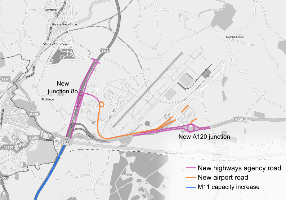 Map of Stansted Generation 2 Access and surrounding road schemes.